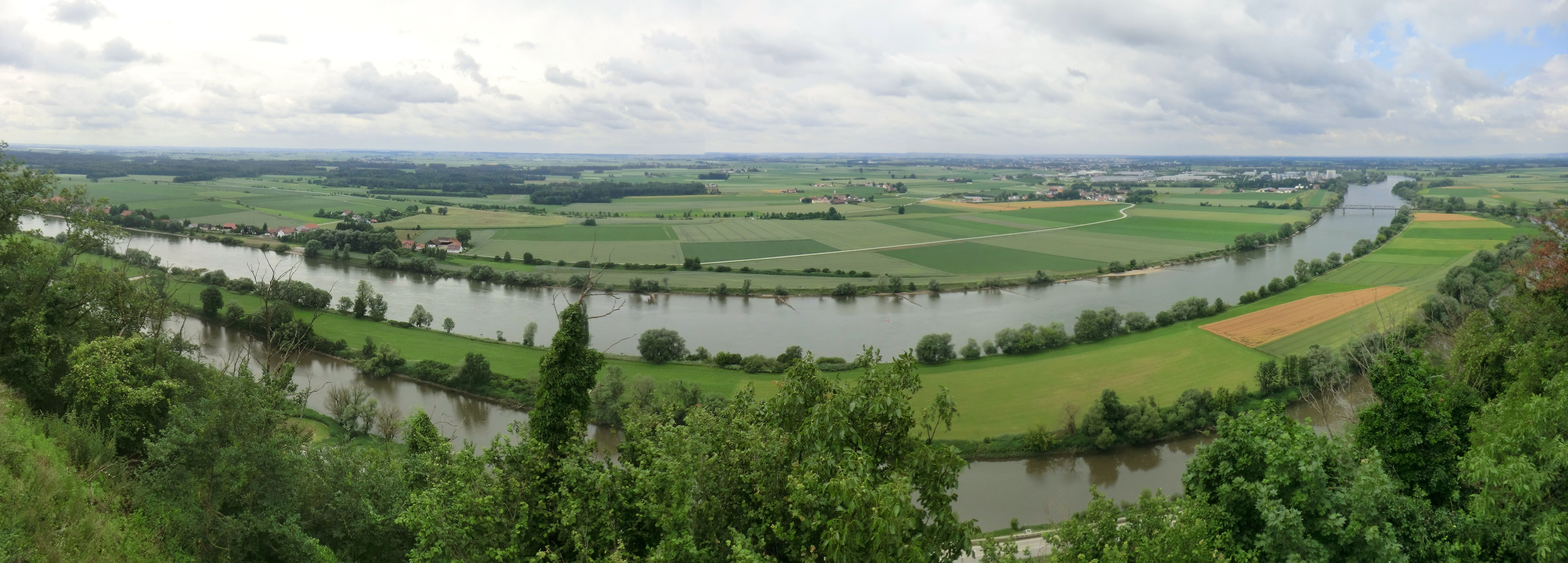 River Danube, seen from Bogenberg, Lower Bavaria, Bavaria, Germany